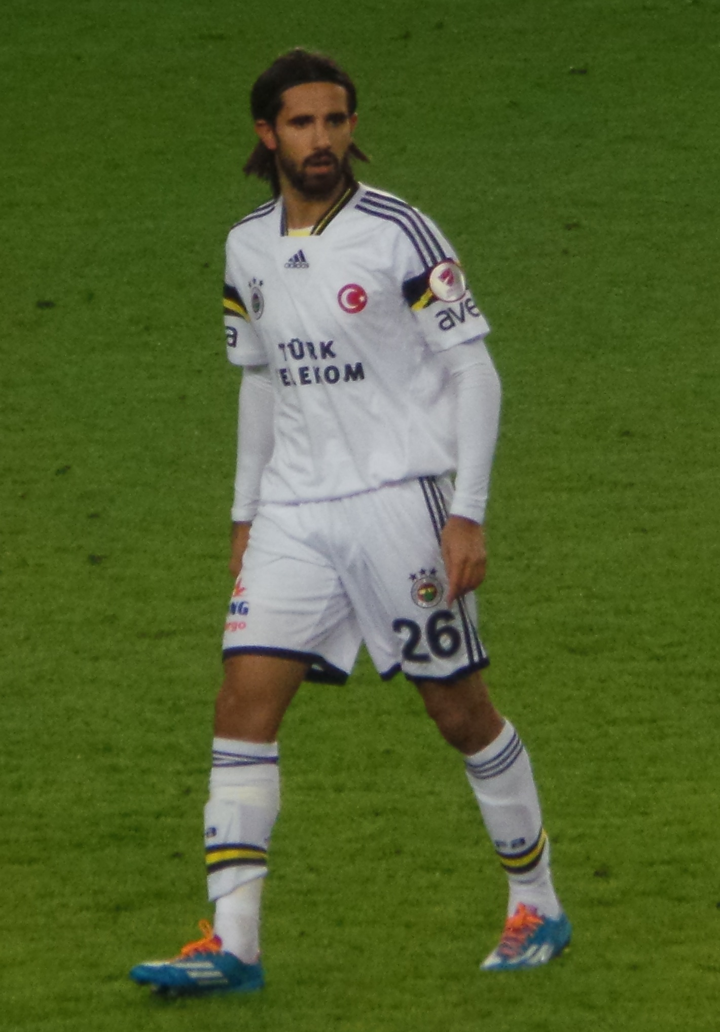 Alper Potuk with F.B.